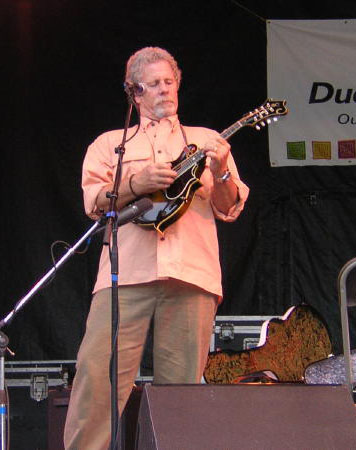 Picture of Chris Hillman performing at the Three Rivers Arts Festival in Pittsburgh, Pennsylvania, on June 16, 2004.